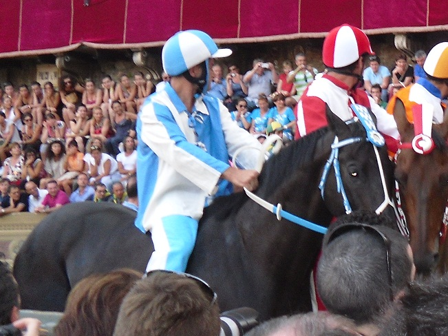 The jockey Luigi Bruschelli a.k.a. Trecciolino on the horse Ivanov, winners for the Onda (Wave) Contrada of the Palio of Siena of July 2nd, 2012 (photo taken before the start of the first proof, on June 29th, 2012)